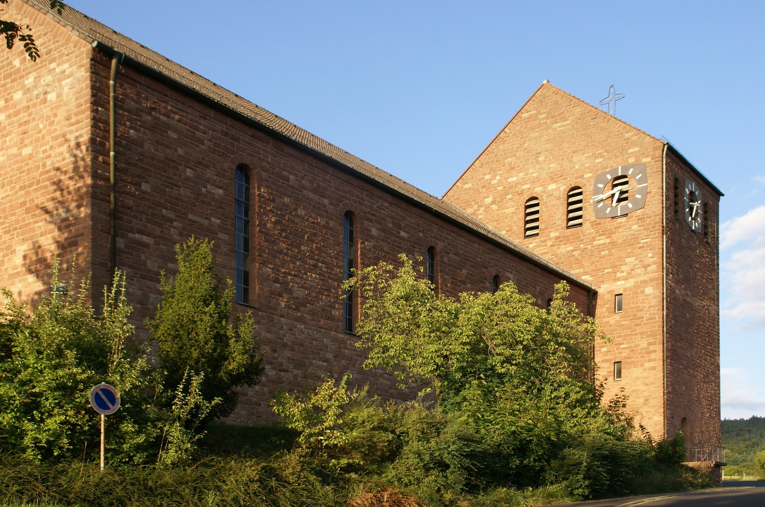 The parish church in Sommerkahl is very large and clearly structured, its name is Mater dolorosa